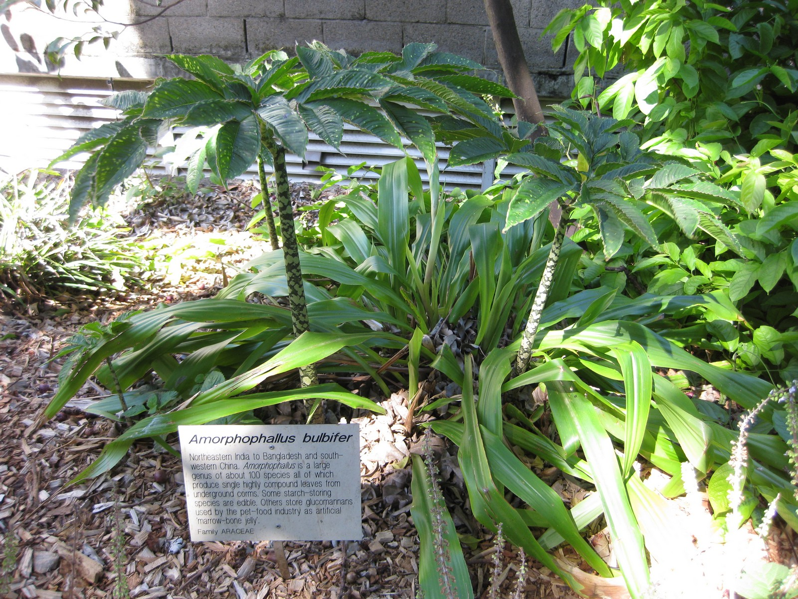 Photographed at the Royal Botanic Gardens Sydney (Australia) in December